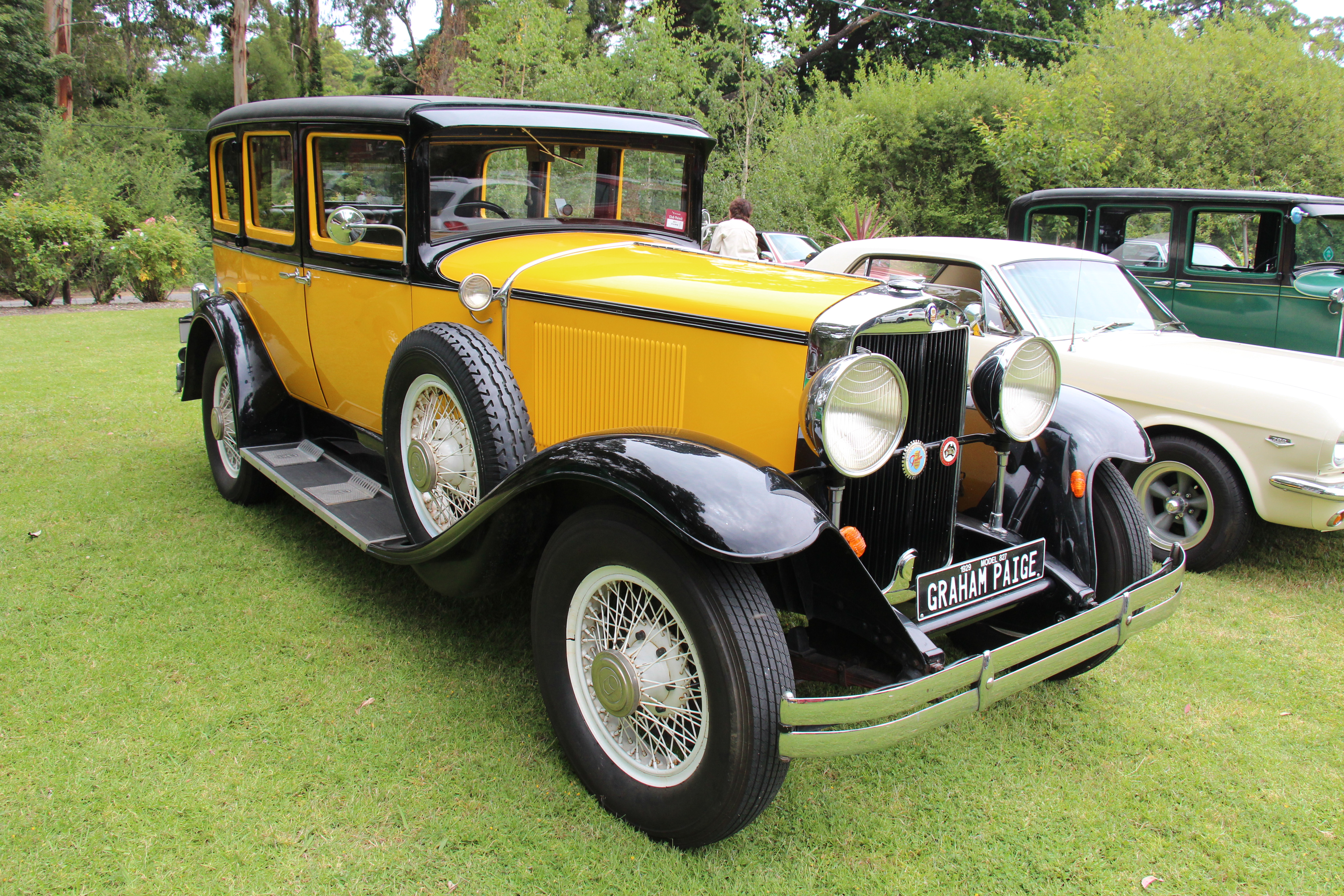 In 1927, American brothers Joseph, Robert and Ray Graham purchased the Paige-Detroit Motor Company, makers of Paige and Jewett automobiles, forming Graham-Paige, they built cars, the bodies and the engines, from 1927-1940. The 835 was introduced in 1928, revised in 1929, now available in 127 inch wheelbase 827 and 137 inch wheelbase 837 Engine; 120 bhp, 5279 cc straight eight-cylinder L-head